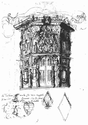 Stage design for the House of Fame in The Masque of Queens